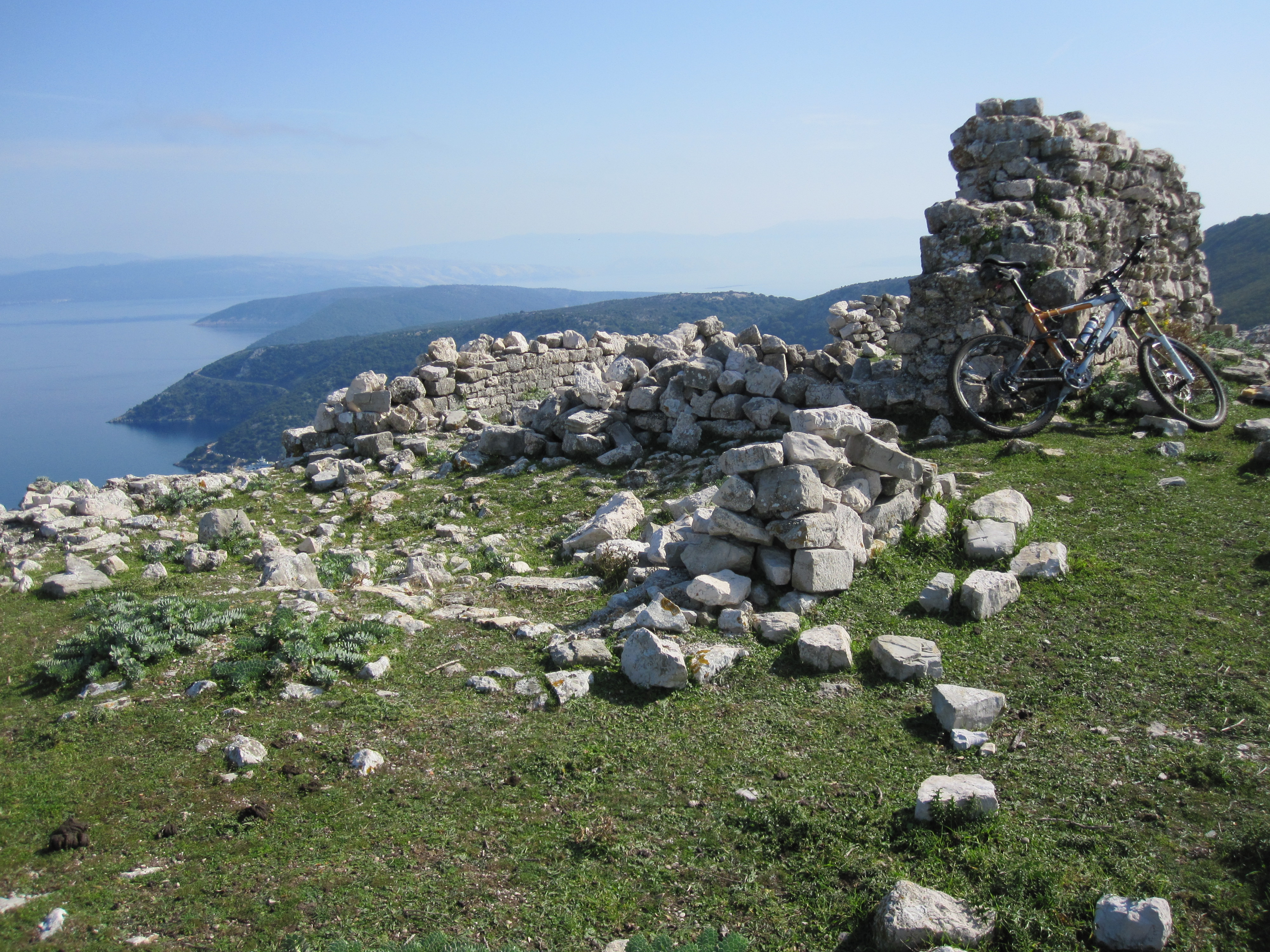 51557, Merag, Croatia